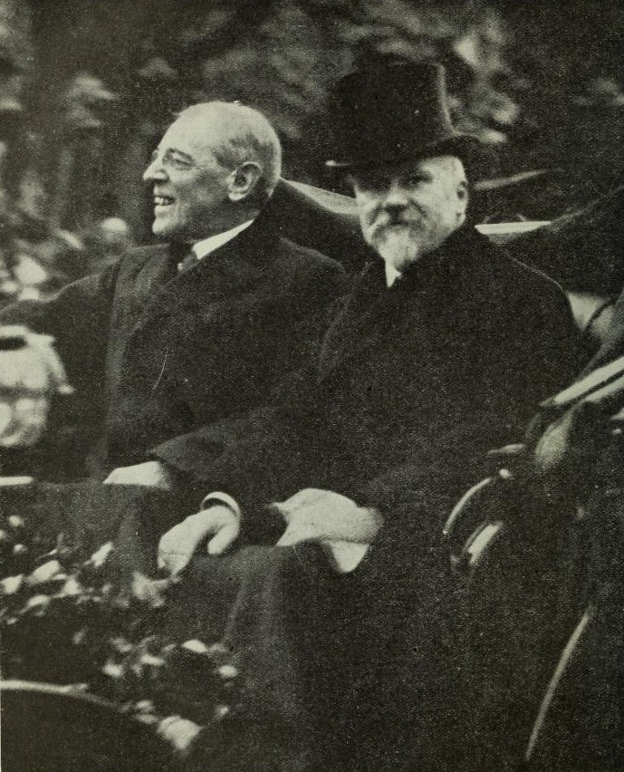 President Wilson and President Poincaré